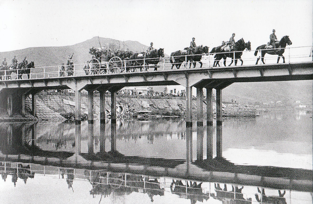 Japanese Army crossing the Kwong Fuk Bridge near Tai Po Market on 1941